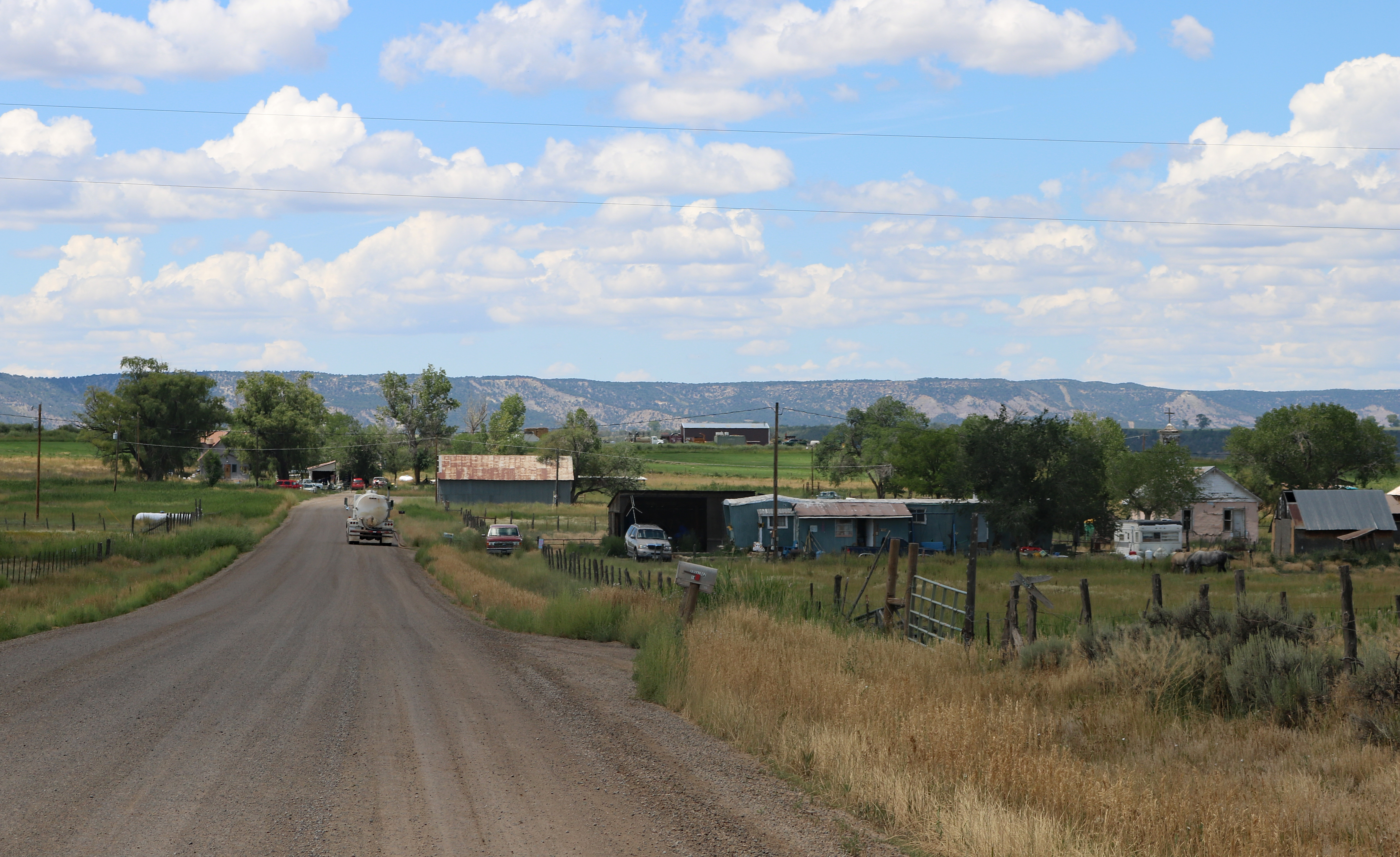 The unincorporated community of Tiffany, Colorado, in La Plata County. The road in the picture is County Road 321.